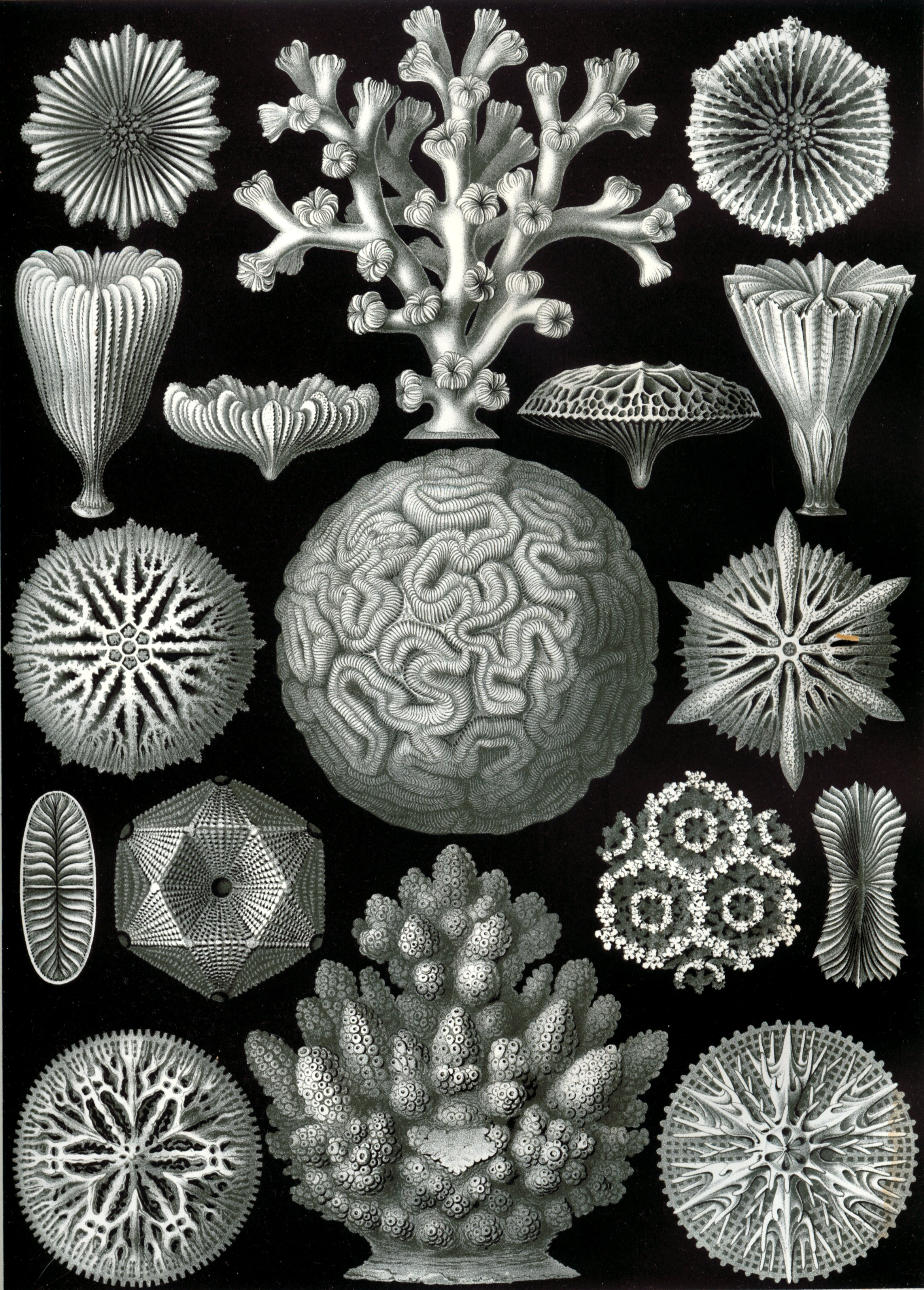 See here for index to numbers]. Lophohelia prolifera (Pallas) = Lophelia prolifera (Pallas, 1766), skeleton of colony from the side Leptocyathus elegans (Milne-Edwards) = Leptocyathus elegans Milne-Edwards & Haime, 1850, skeleton of polyp from above (2a: from the side) Cyathina cylindrica (Milne-Edwards) = Caryophyllia cylindrica Phillips, 1839, skeleton of polyp from above Balanophyllia floridana (Pourtales) = Balanophyllia floridana Pourtalès, 1868, skeleton of polyp from the side Rhizotrochus fragilis (Pourtales) = Polymyces fragilis (Pourtalès, 1871), skeleton of polyp from the side Stephanophyllia elegans (Milne-Edwards) = Stephanophyllia elegans (Bronn, 1837), skeleton of polyp from above Astrocyathus paradoxus (Pourtales) = Caryophyllia paradoxus Alcock, 1898, skeleton of polyp from above Maeandrina filograna (Lamarck) = Meandrina filograna (Esper, 1791), skeleton of coral head from above Madrepora fruticosa (Brook) = Acropora humilis (Dana, 1846), skeleton of colony from the side Flabellum australe (Mosley) = Flabellum australe Moseley, 1881, skeleton of polyp from above Flabellum alabastrum (Mosley) = Flabellum alabastrum Moseley, 1876, skeleton of polyp from above Thamnastraea arachnoides (Milne-Edwards) = Thamnastraea arachnoides (Parkinson, 1808), part of skeleton of coral head from above Porites furcata (Lamarck) = Porites furcata Lamarck, 1816, part of skeleton of coral head from above Stephanophyllia complicata (Mosley) = Stephanophyllia complicata Moseley, 1876, skeleton of polyp from above (14a: from the side) Leptopenus discus (Mosley) = Leptopenus discus Moseley, 1881, skeleton of polyp from above